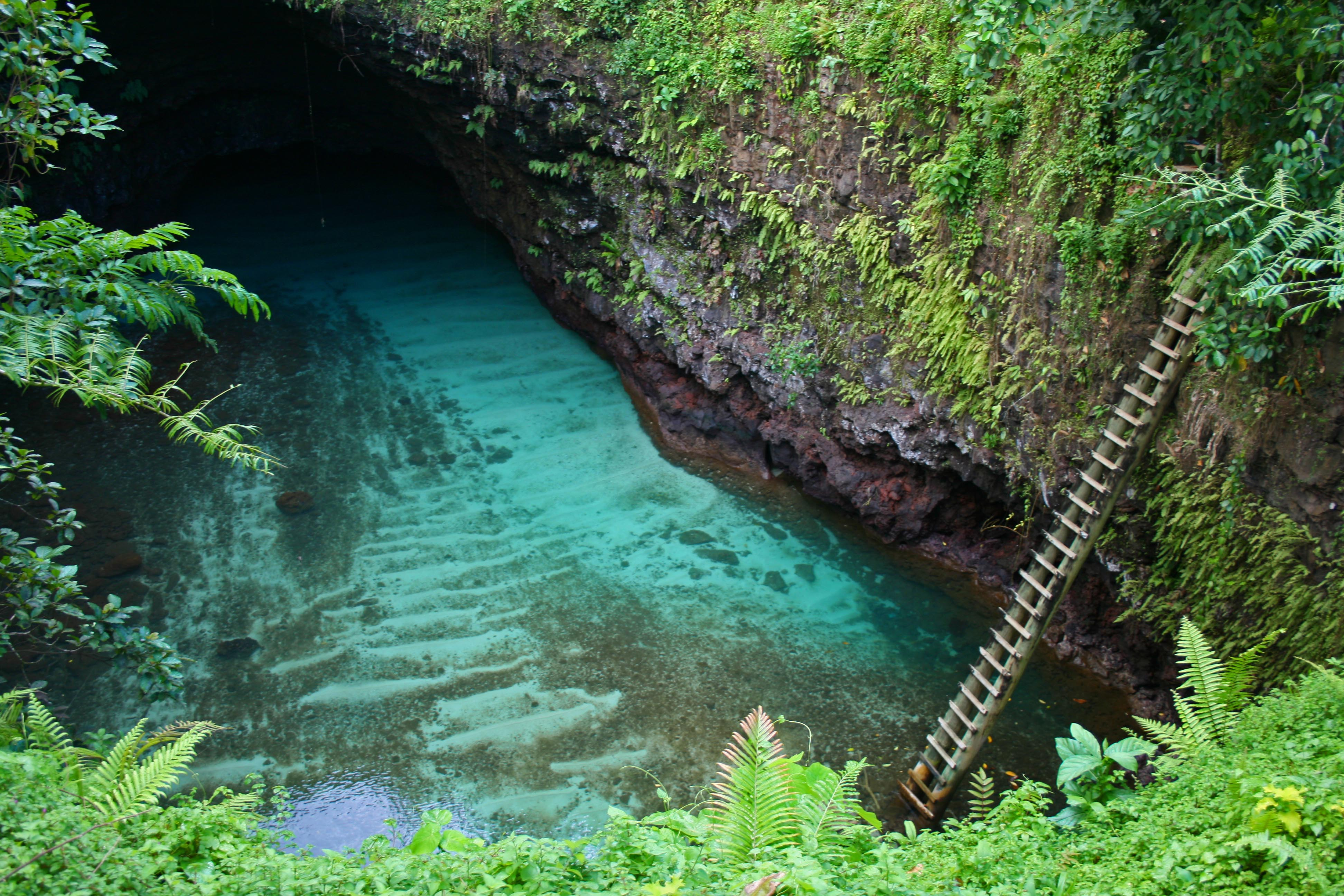 To Sua (ocean trench), one of two large holes in the ground by the coast in Lotofaga village, Upolu island in Samoa. Water flows into the deep hole through a lava tube tunnel. The two sua are situated in a beautiful garden park overlooking the southeast coast of the island. Open to visitors. The tomb of Laulu Fetauimalemau Mata'afa (1928 - 2007), wife of Samoa's first Prime Minister and the mother of cabinet minister Fiame Naomi Mata'afa, the paramount chief of Lotofaga, is situated close to the sua.